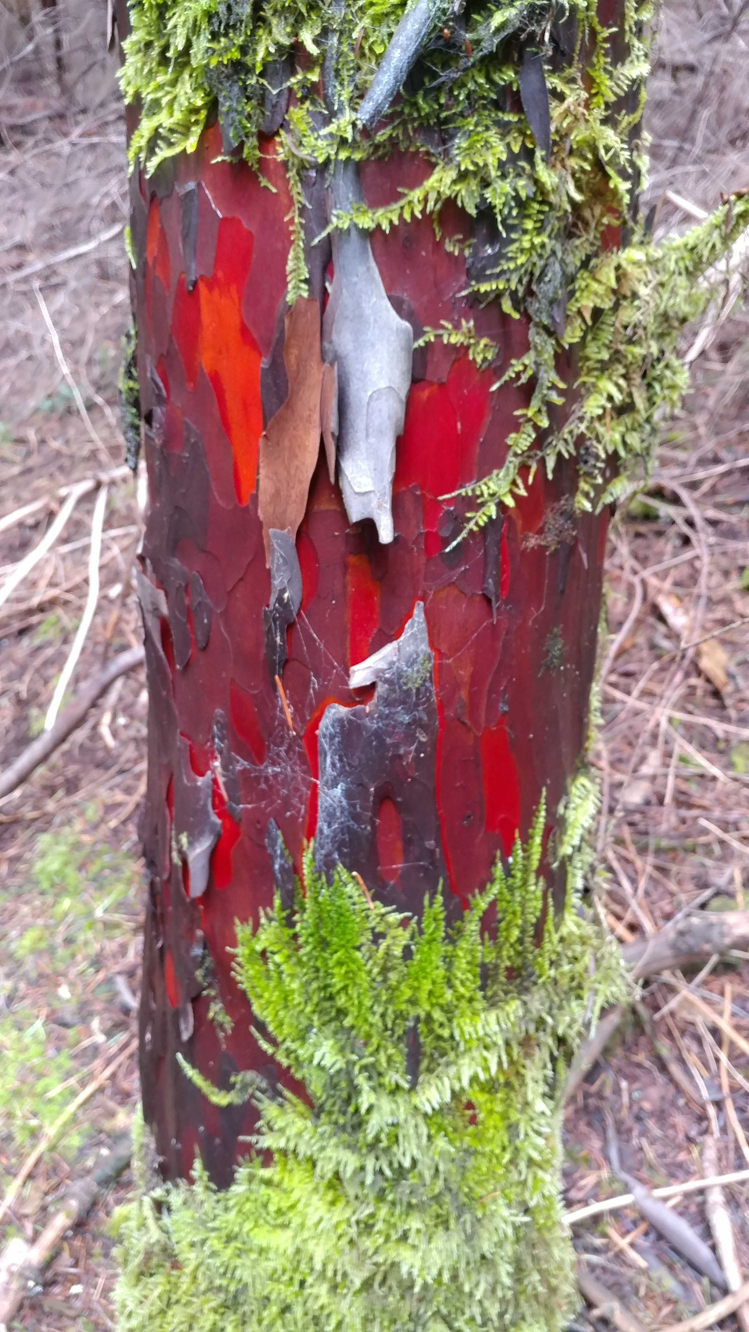 Close up of Pacific Yew showing interesting color variations.